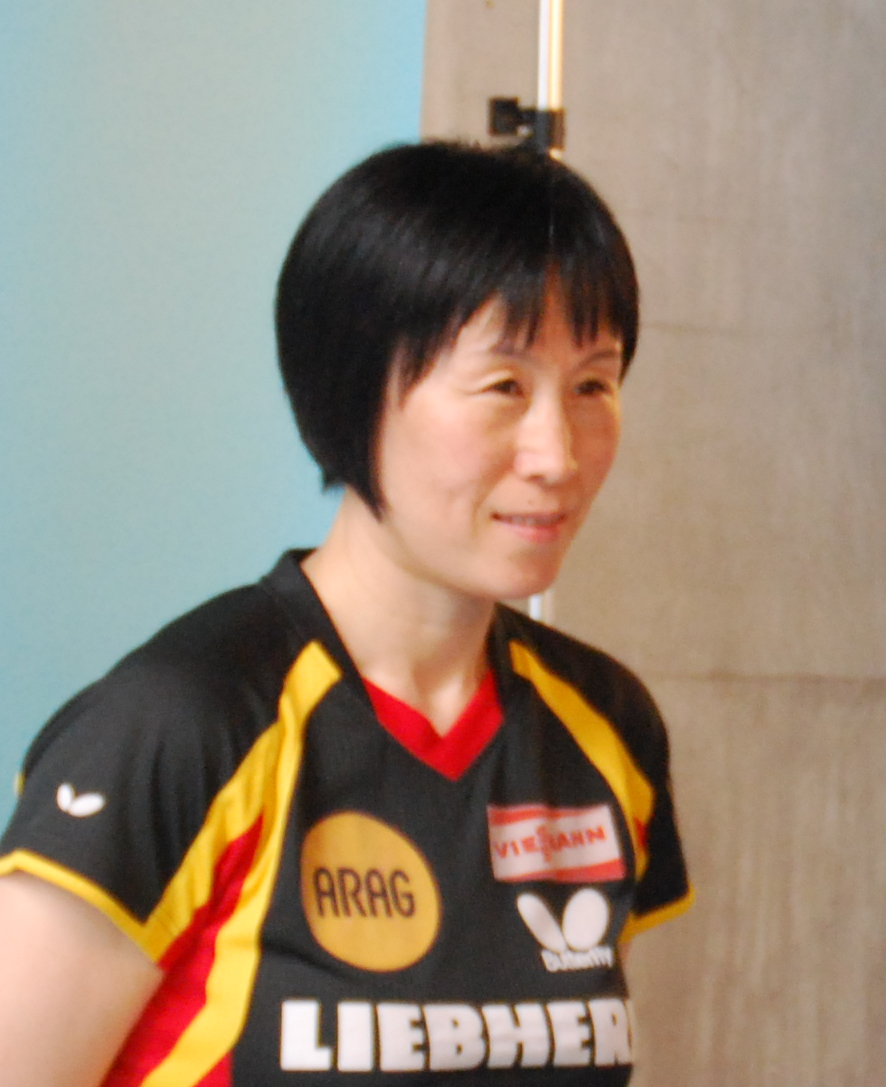 Outfitting the Olympic team of Germany 2012